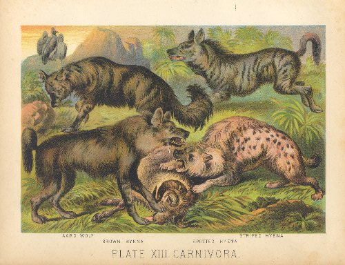 All four extant species of hyenas